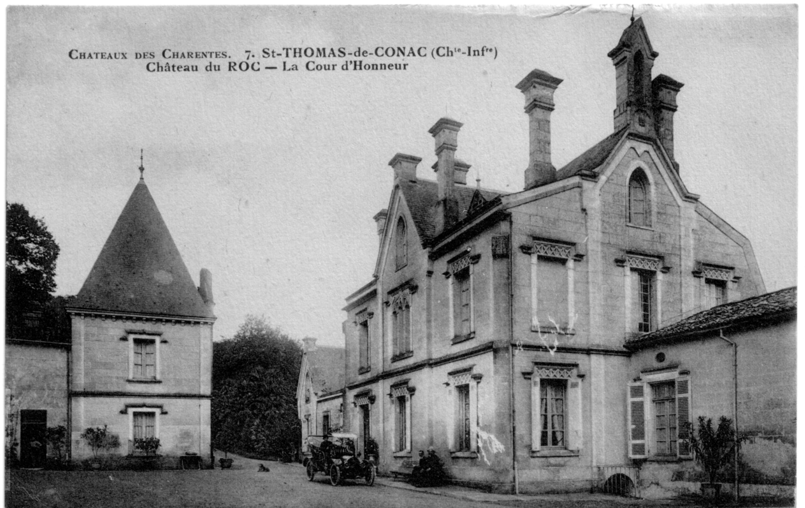 The Roc Castle at St thomas de conac